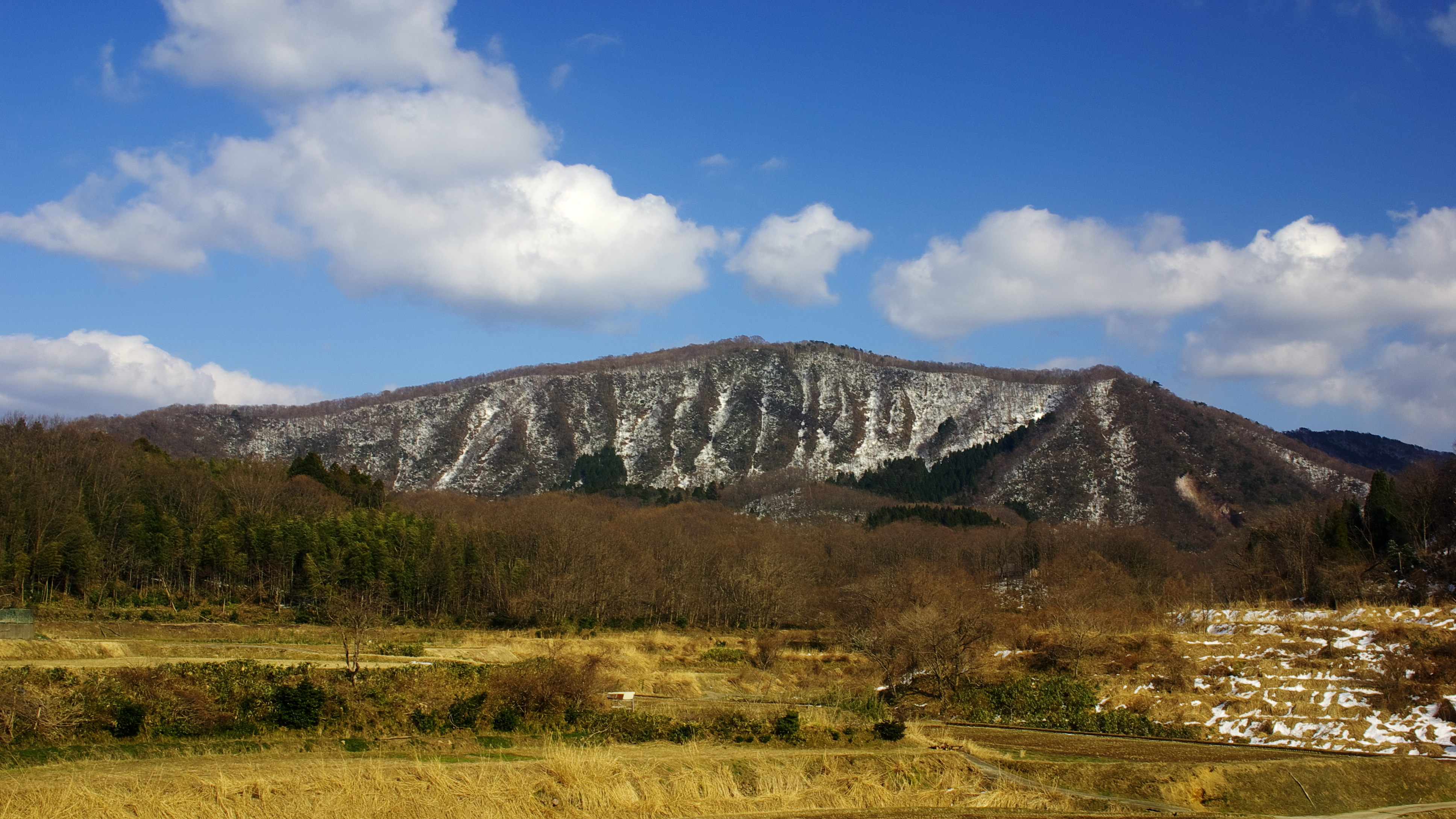 Mount Tomuro seen from Tawaramachi, Kanazawa City